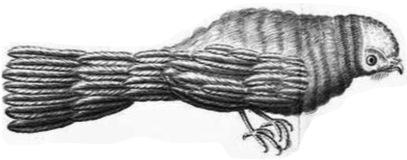 Jamaica Least Pauraque (Siphonorhis americana) depiction from 'A voyage to the islands Madera, Barbados, Nieves, S. Christophers and Jamaica; with the natural history of the herbs and trees, four-footed beasts, fishes, birds, insects, reptiles, etc. of the last of those islands; to which is prefix'd, an introduction, wherein is an account of the inhabitants, air, waters, diseases, trade, &c. of that place, with some relations concerning the neighbouring continent, and islands of America.' by from the year